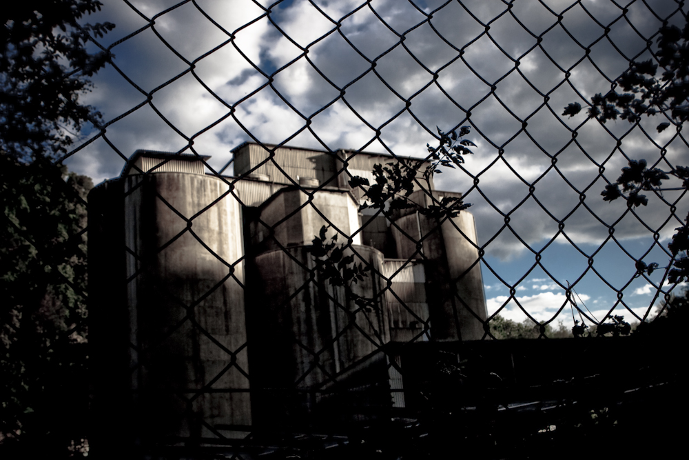 Building in the village of Morbio, Braggia, Canton of Ticino, Switzerland